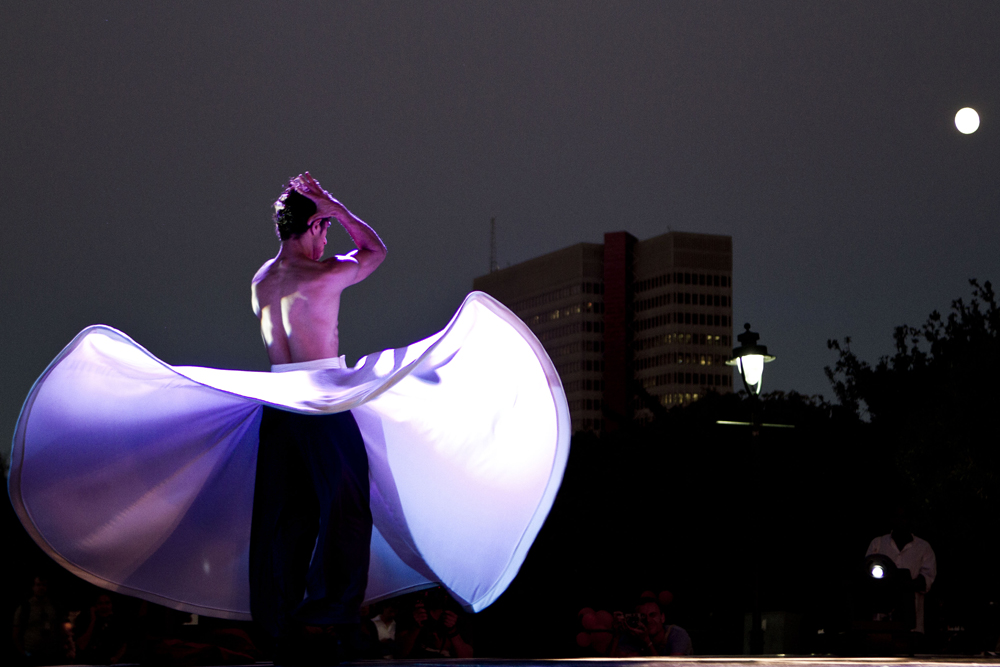 Infecting the City 2012. Africa Centre